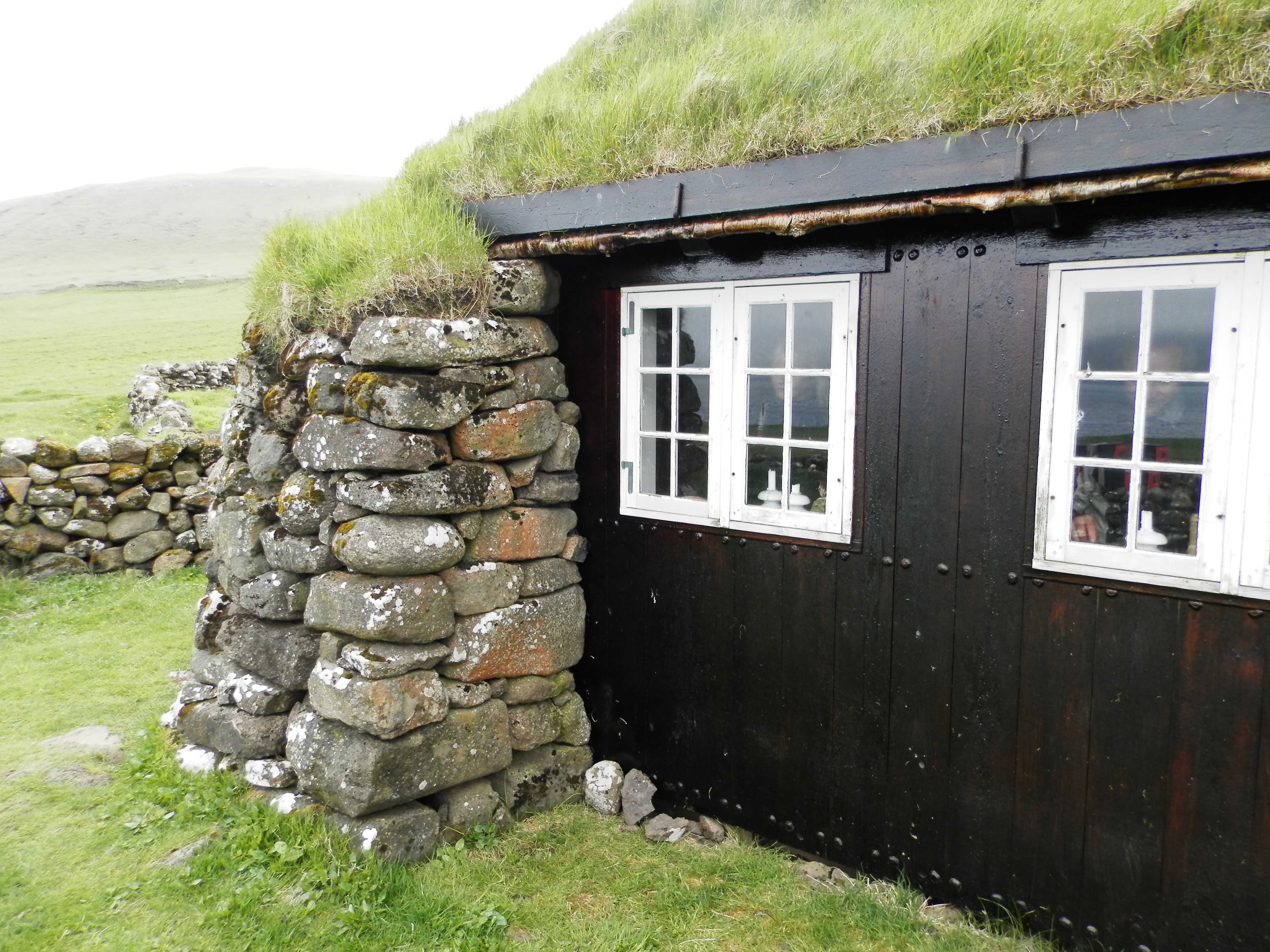 Koltur is one of the smallest islands of the Faroe Islands, the smallest of the inhabited islands. The population as of 2014 is 1 person. The island covers 2,31 km². The neighbourhood "Heimi í Húsi" is the oldest part of the island. The houses are not inhabited any longer, they have been renovated since 2009. The houses are made of stones and wood and have turf roof.Føroyskt: Koltur er ein oyggj og bygd í Føroyum. Í 2014 búði bert ein persónur í Koltri. Býlingurin Heimi í Húsi er blivin umvældur síðan 2009 til tað ið hann upprunaliga hevur verið.